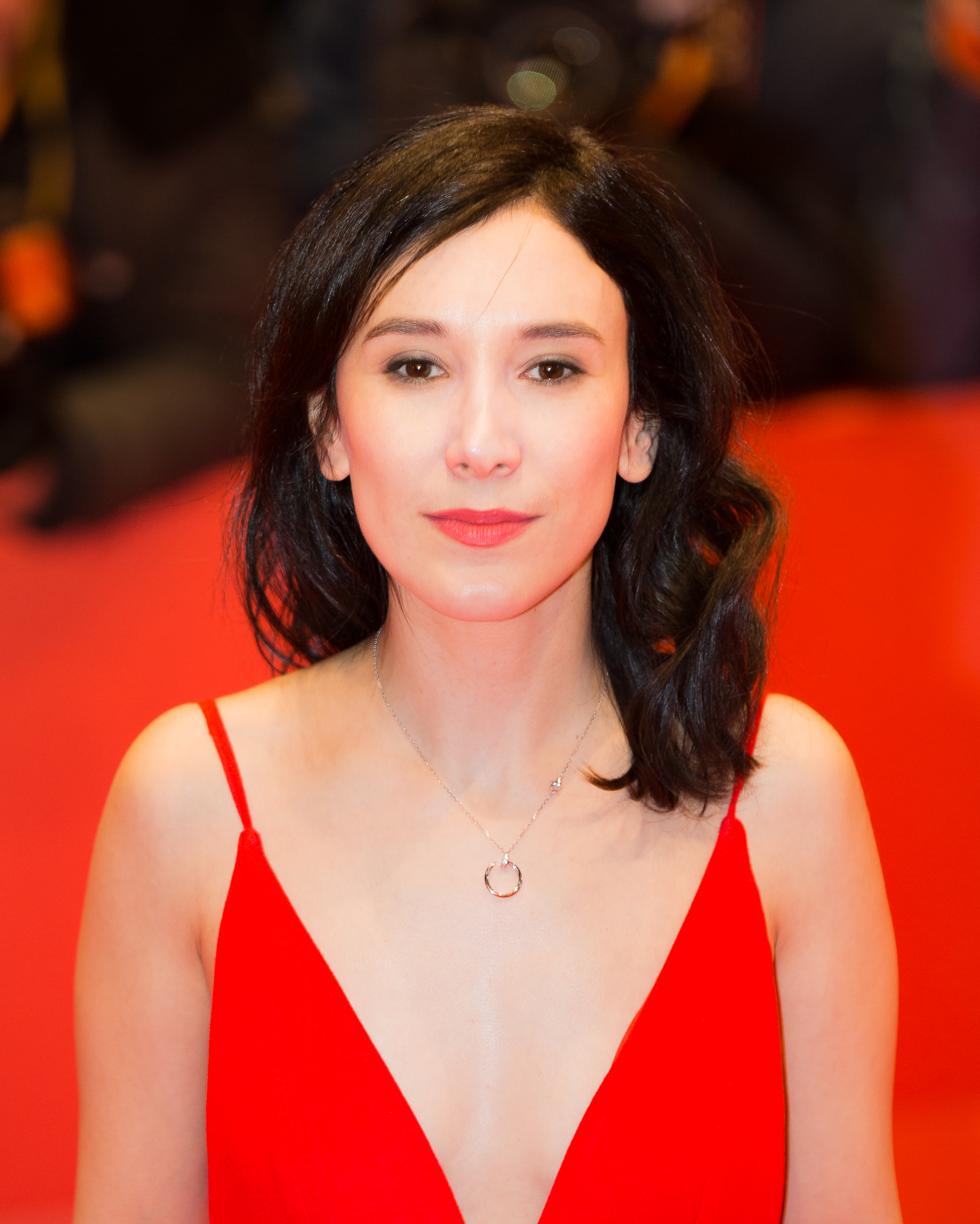 Sibel Kekilli on the red carpet of the Berlinale 2017 opening film